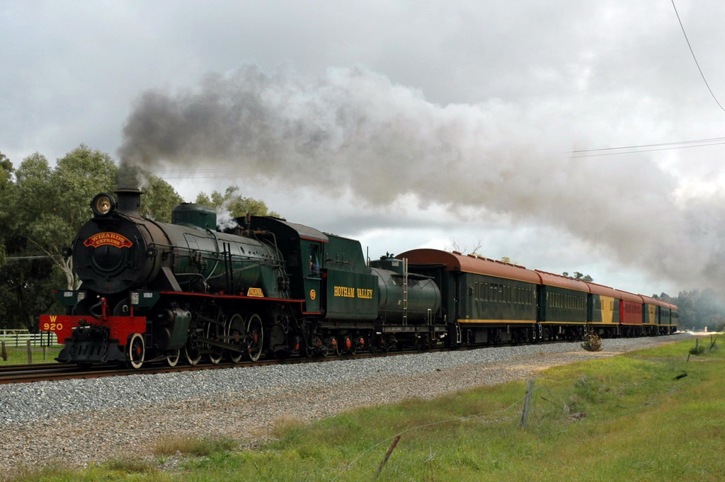 Hotham Valley Railway Wizards Express at Wellard, Western Australia.